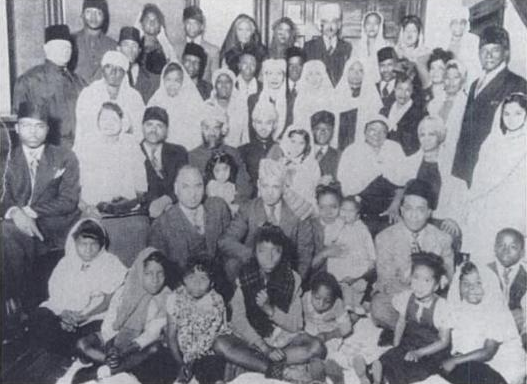 Early converts the Ahmadiyya Muslim Community in the United States